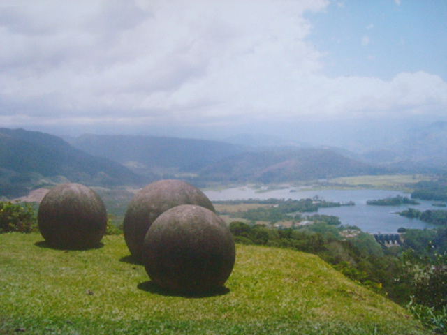 Stone spheres of Costa Rica. Reventazon river view.